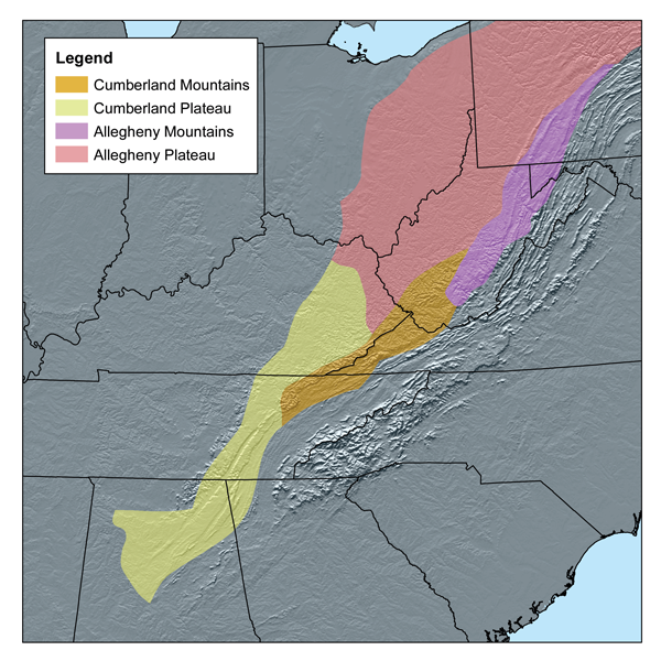 This map shows the subdivisions of the southern Appalachian Plateau. As defined by—Bailey's ecoregions.